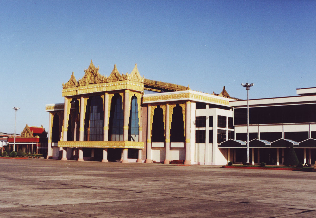 Yangon International Airport in 2002, Old Terminal - now used as domestic terminal.